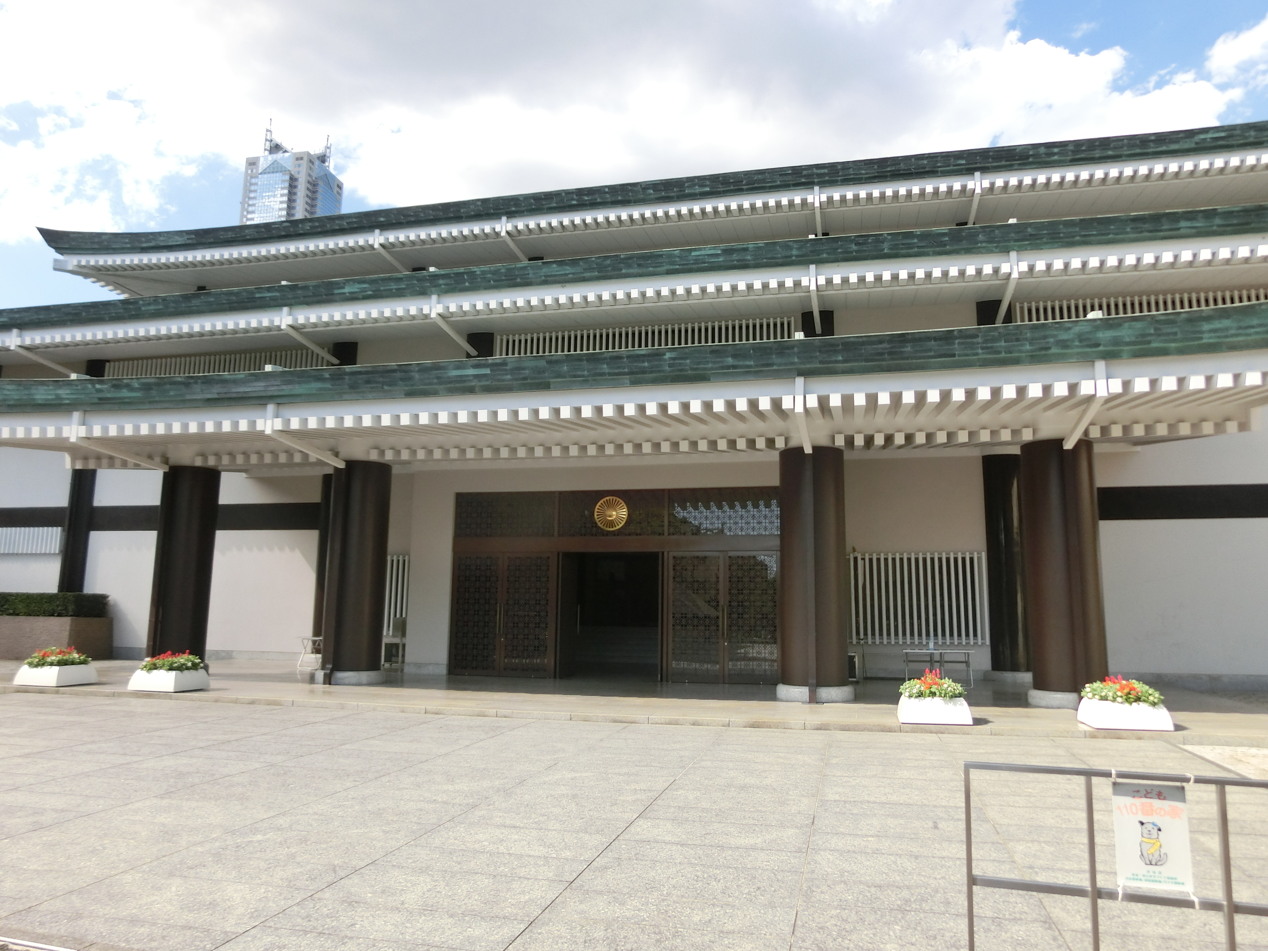 Myochikai Headquarters